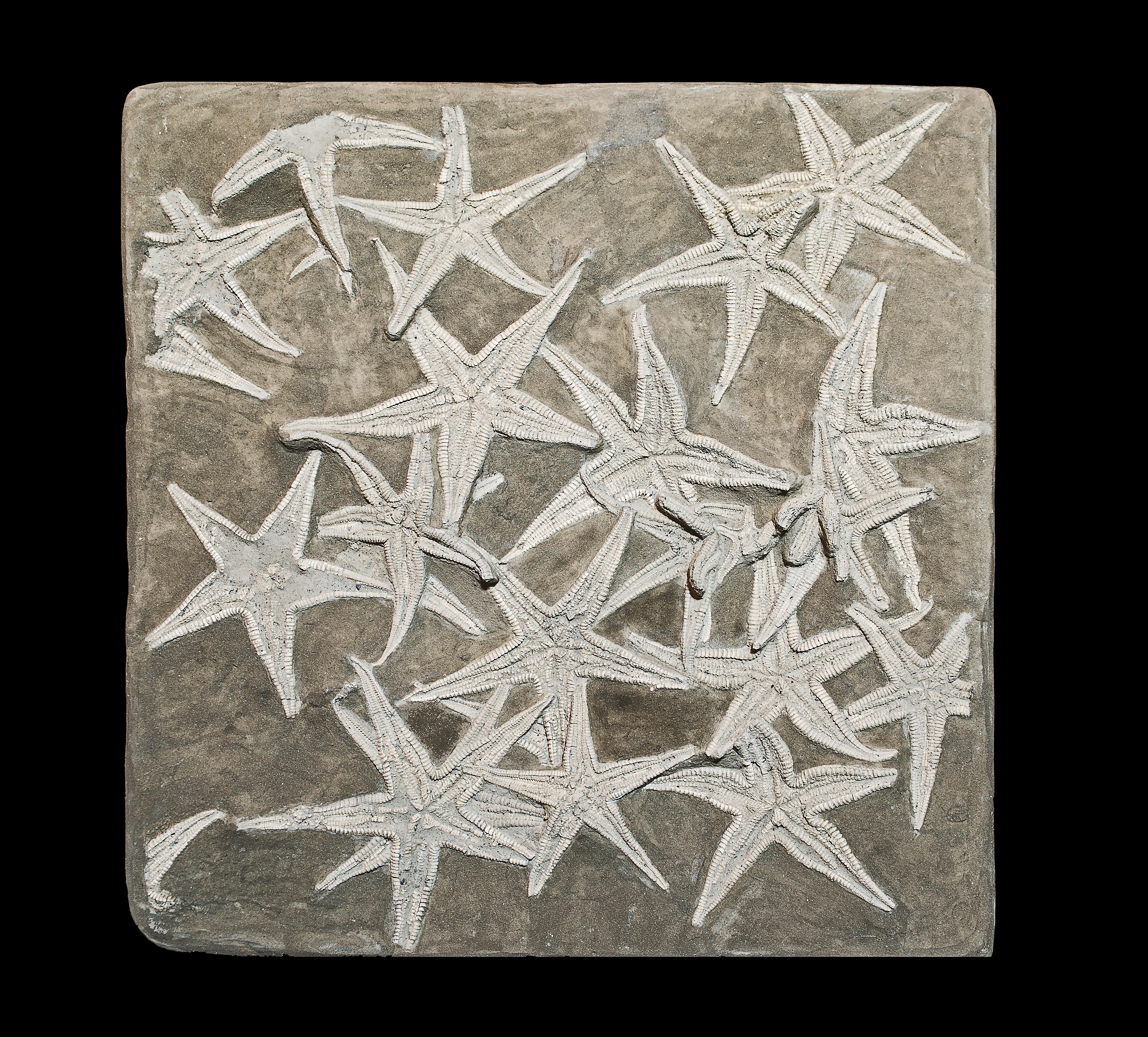 Astropecten lorioli Stage : Tithonian 150.8 ± 4 Ma and 145.5 ± 4 Ma (million years ago) Locality : Boulogne-sur-Mer, Pas-de-Calais, France